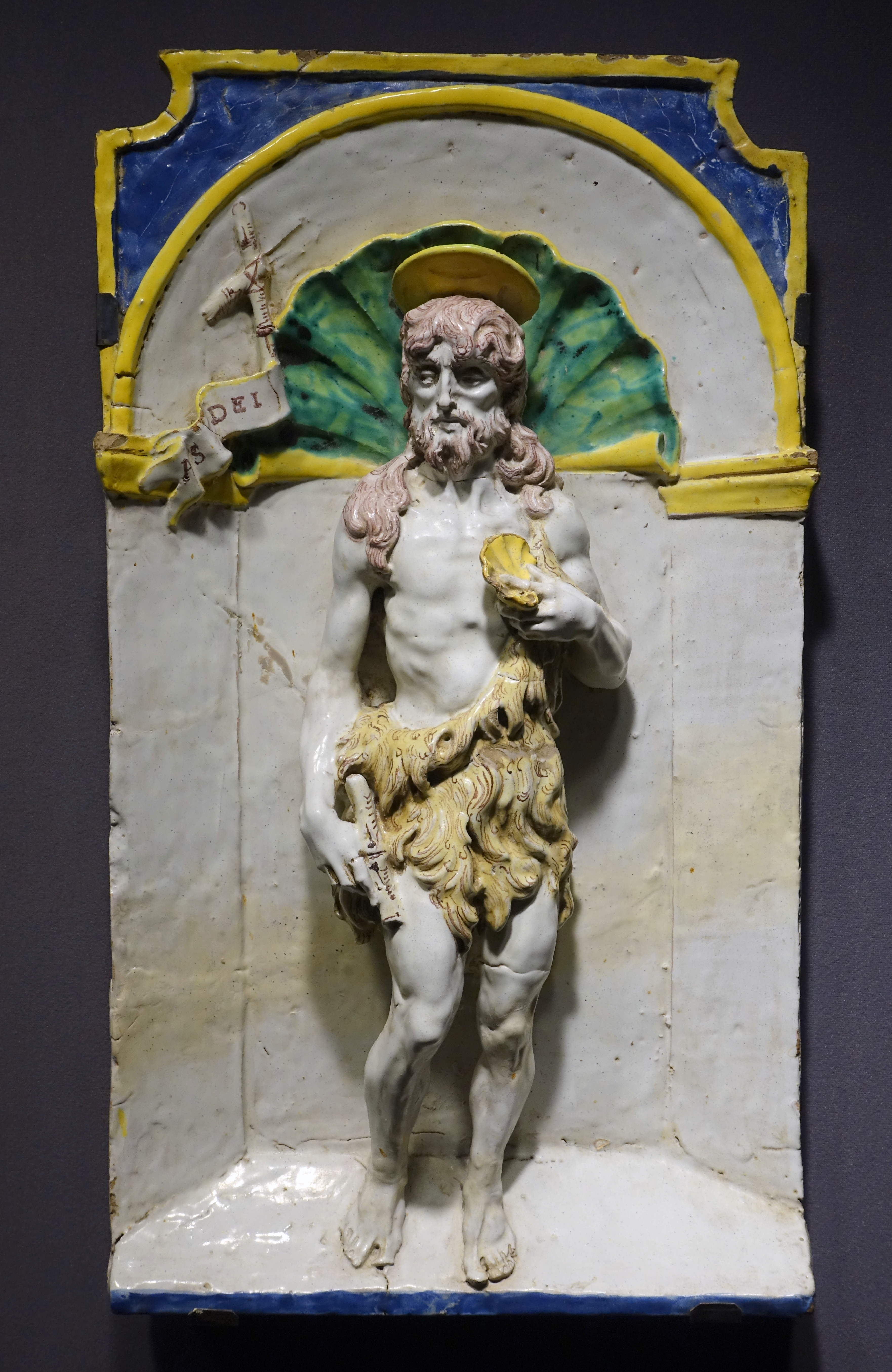 Exhibit in the Museum of Anthropology, University of British Columbia - Vancouver, British Columbia, Canada.